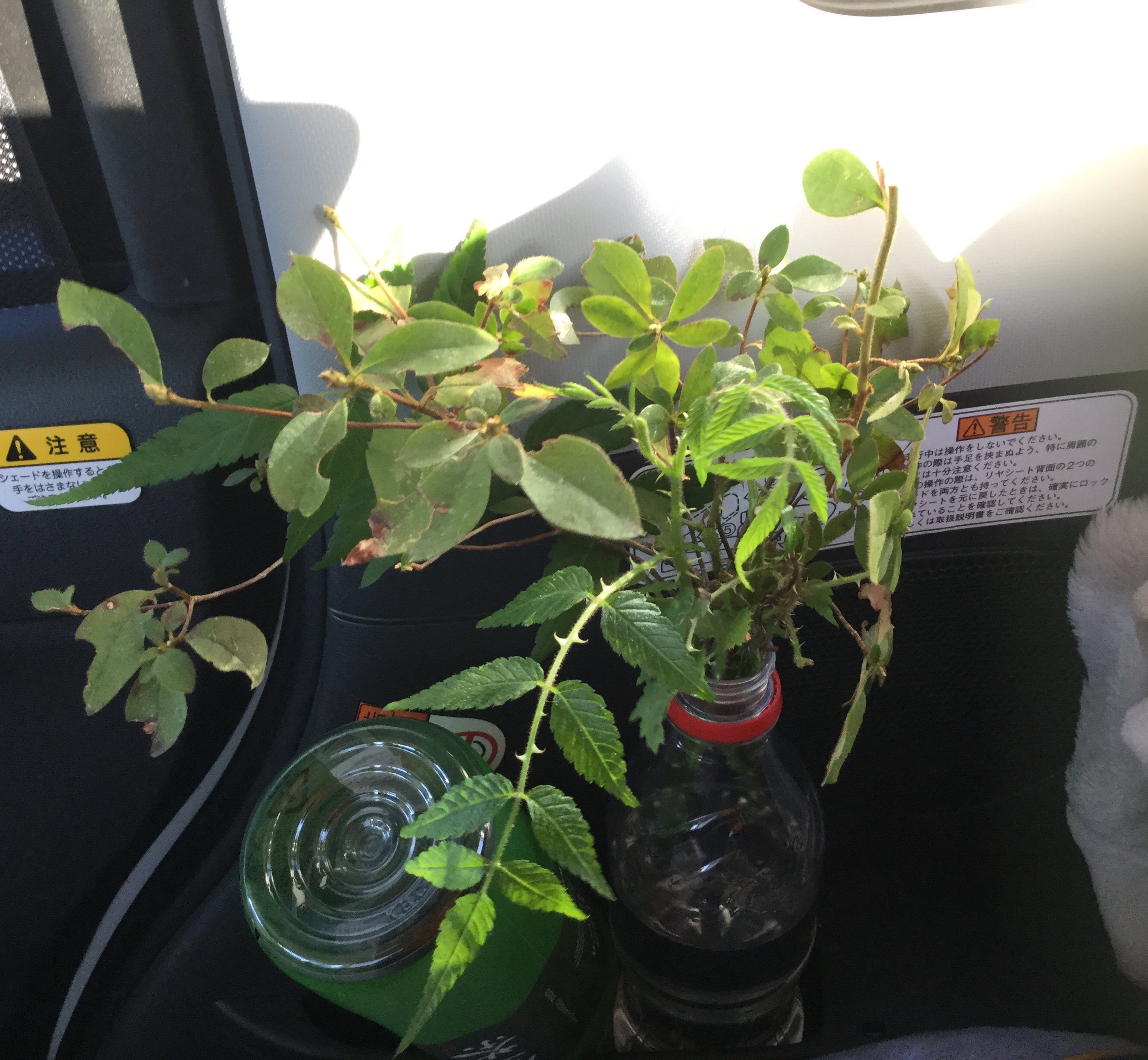 This picture taken at “Kaeda-kêkoku”, Miyazaki-shi, Miyazaki prefecture, Japan.